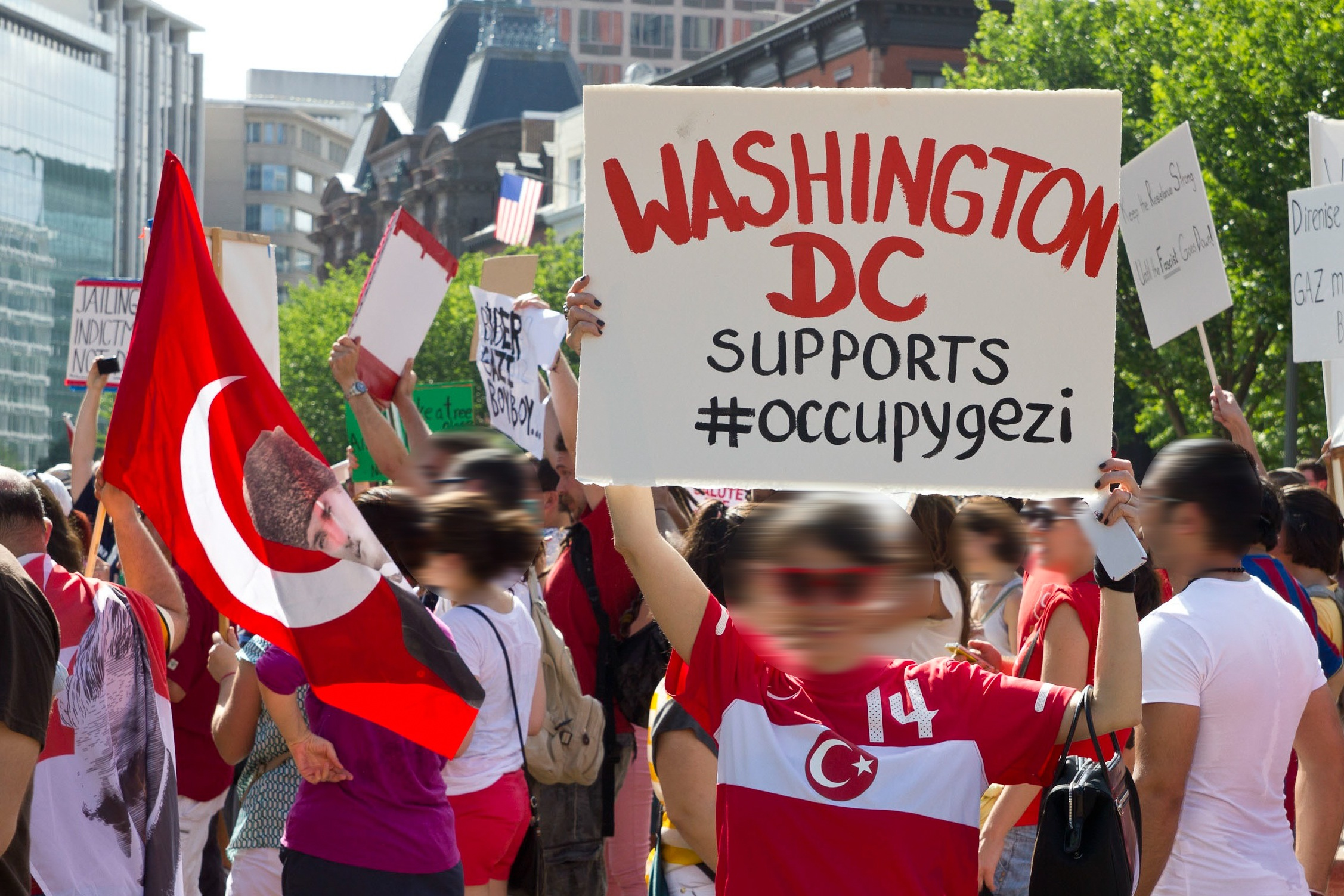 Washington DC in Solidarity with Occupy Gezi